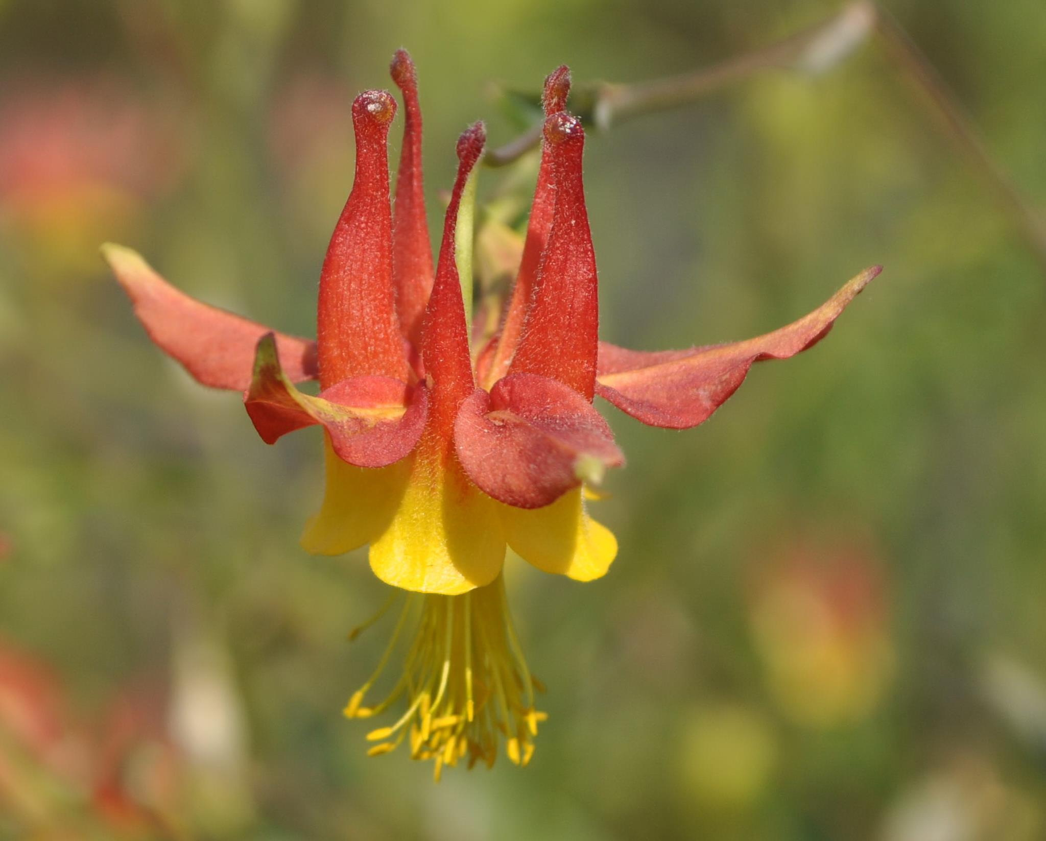 Along the Nez Perce National Historic Trail at Birch Creek, south of Leadore, Idaho. US Forest Service photo, by Roger Peterson